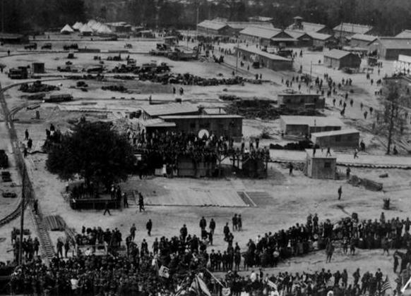 The 2-foot-gauge railway at Camp Humphreys was used to train hundreds of Soldiers heading to frontlines in Europe in 1918. (Photo Credit: Courtesy of Fort Belvoir's Historical Department)